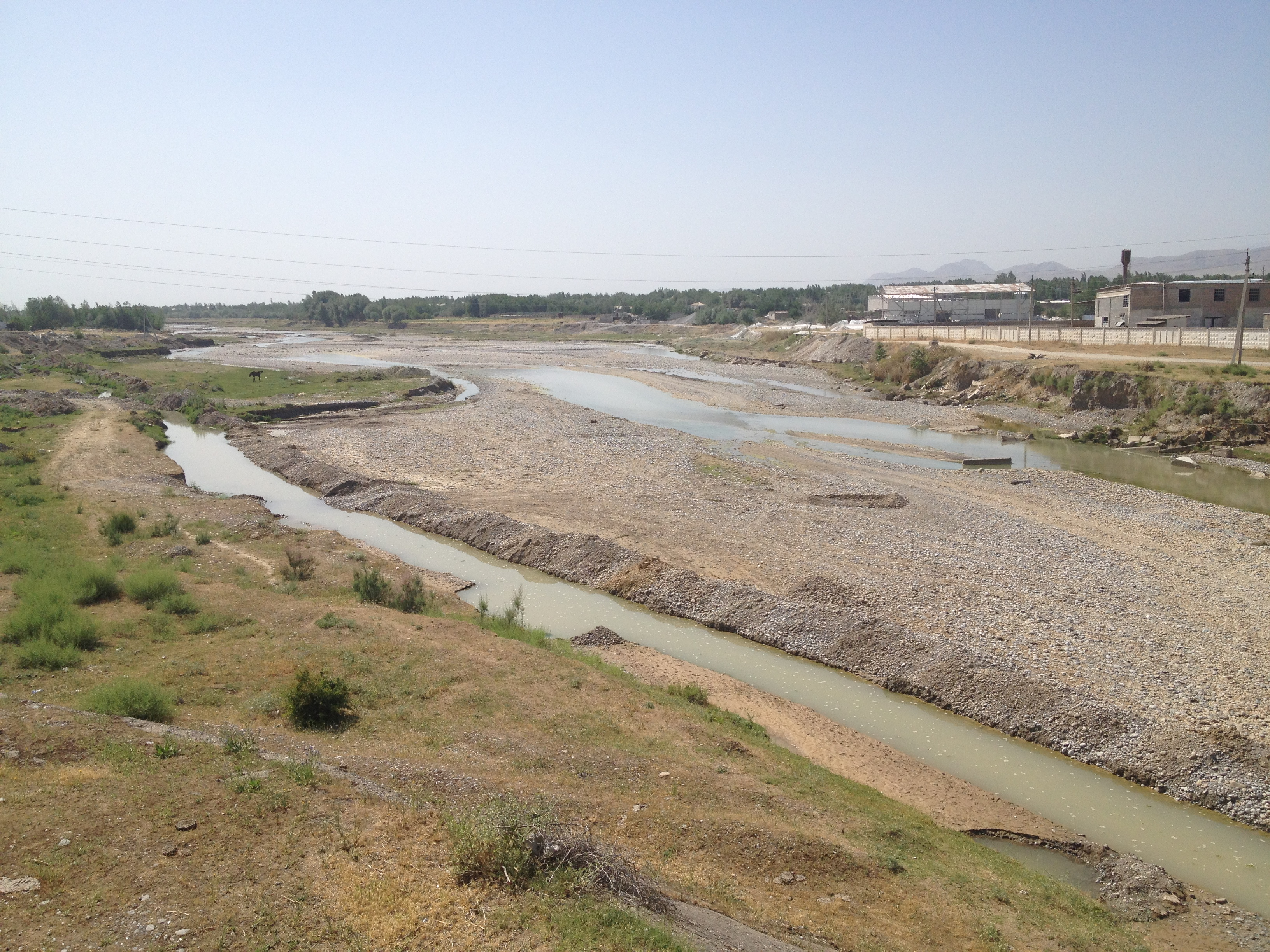 Anabranches of Qashqadaryo river in Kitab town Oʻzbekcha/ўзбекча: Shoxobchalar of Qashqadaryo (Kitobda)